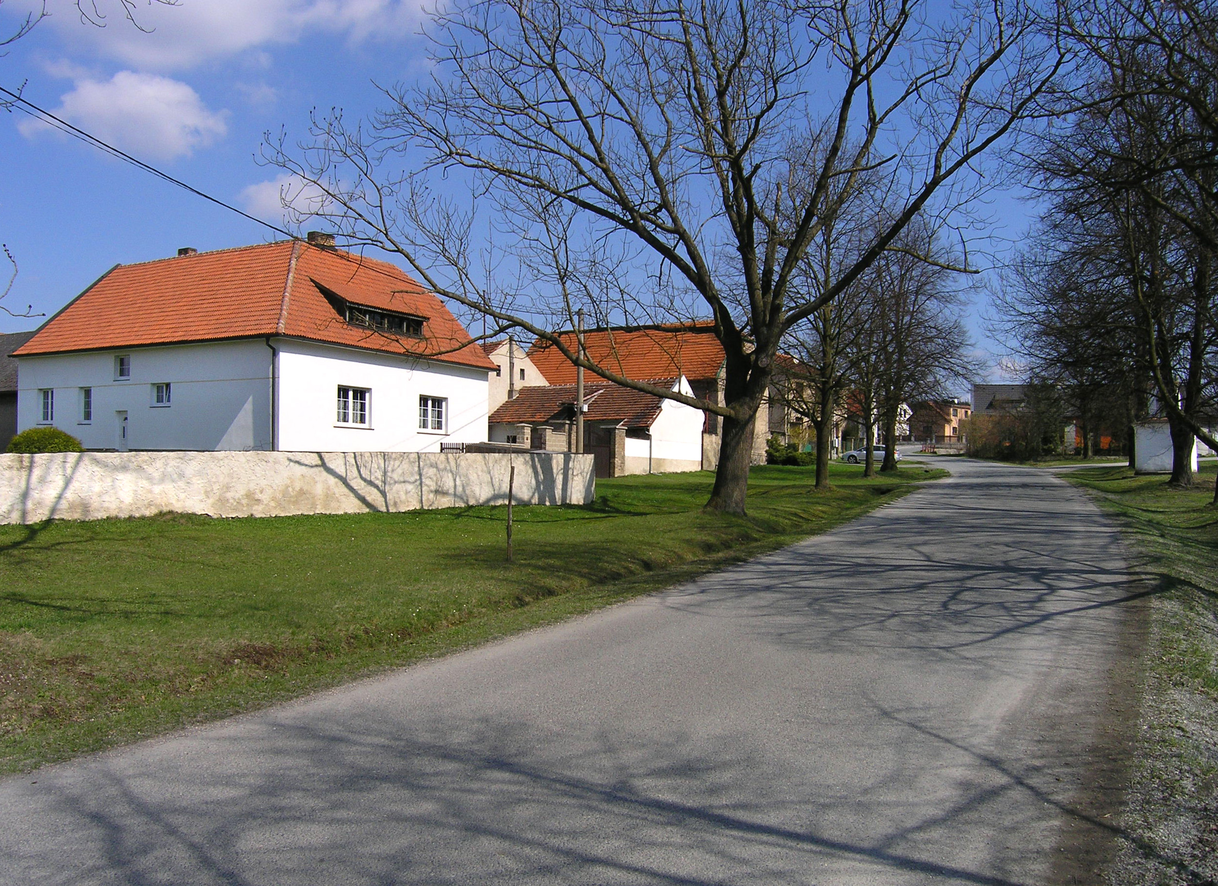 Common in Lhotka u Berouna, part of Chýňava village, Czech Republic